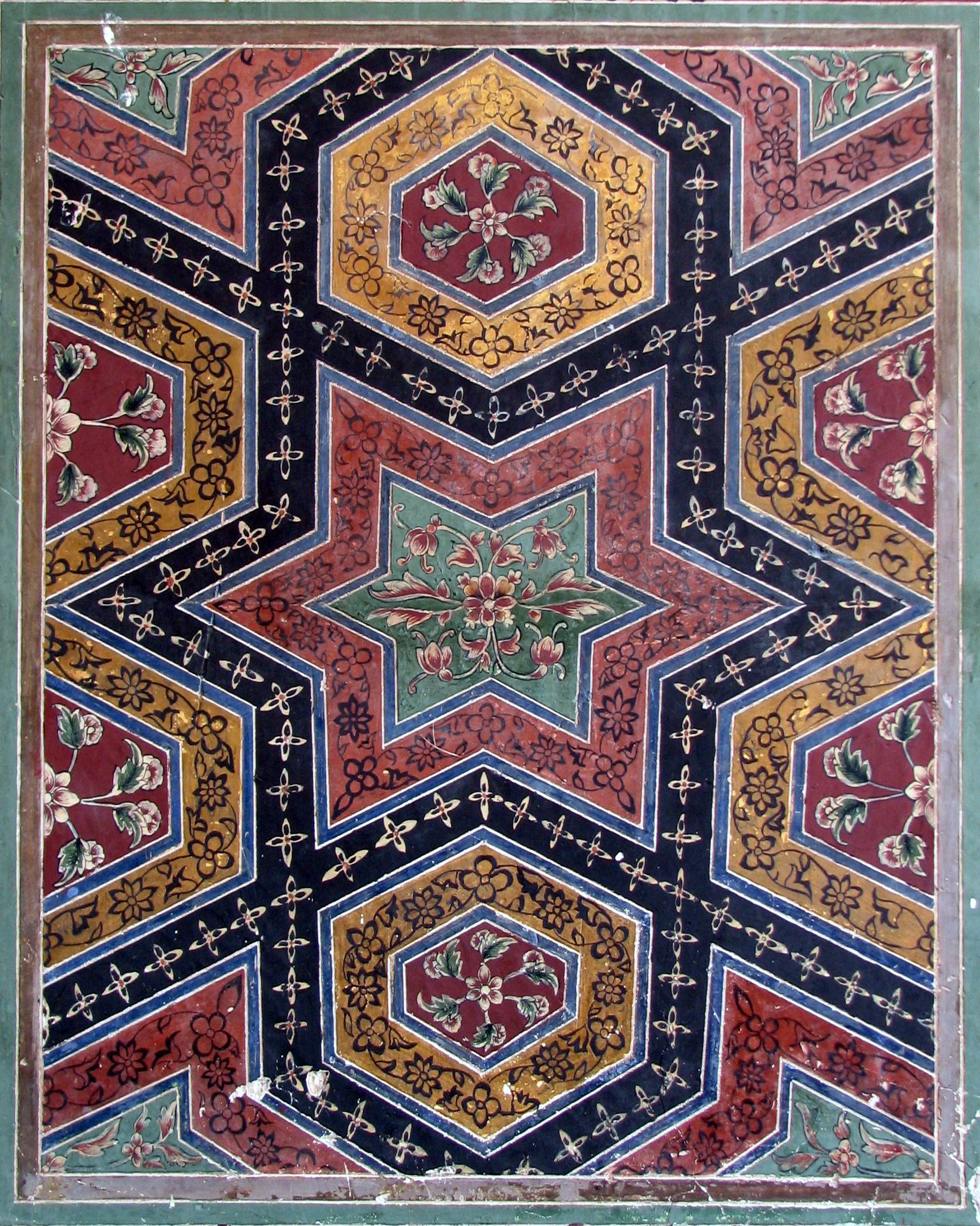 The Wazir Khan Mosque in Lahore, Pakistan, is famous for its extensive faience tile work. It was built in seven years, starting around 1634-1635 A.D., during the reign of the Mughal Emperor Shah Jehan. It was built by Shaikh Ilam-ud-din Ansari, a native of Chiniot, who rose to be the court physician to Shah Jahan and later, the Governor of Lahore. He was commonly known as Wazir Khan. (The word wazir means 'minister' in Urdu language.) The mosque is located inside the Inner City and is easiest accessed from Delhi Gate. (